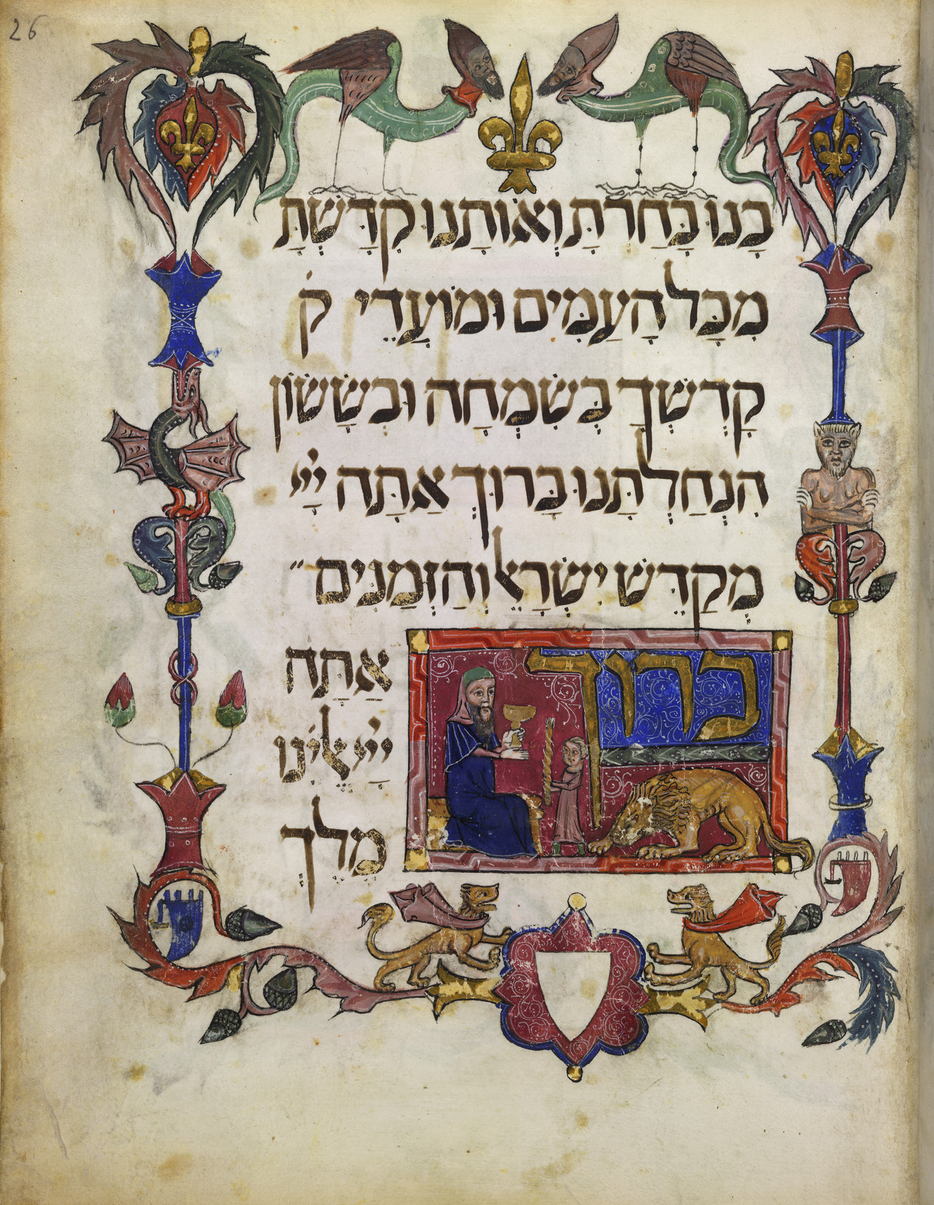 Holiday blessing (Kiddush for Yom Tov) from a Passover Haggadah. Detail from a folio showing the Yom Tov bracha (holiday blessing). Vellum manuscript.